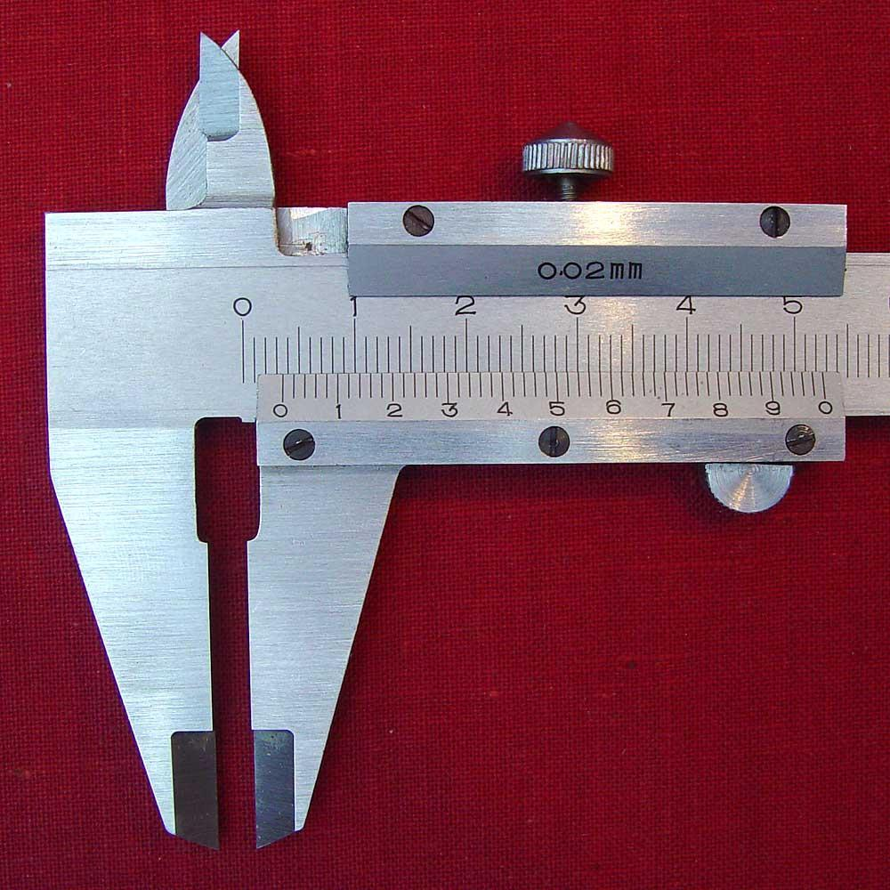 nonius of a caliper; shows value 3.58 mm